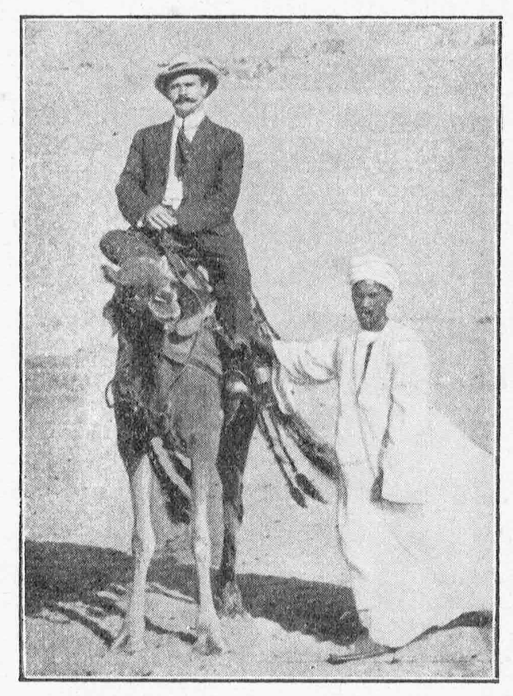 Kummer, Fritz, »Eines Arbeiters Weltreise«, Innentitel (Ausschnitt), 2. Auflage, Thüringer Verlagsanstalt und Druckerei G.m.b.H., Jena 1924